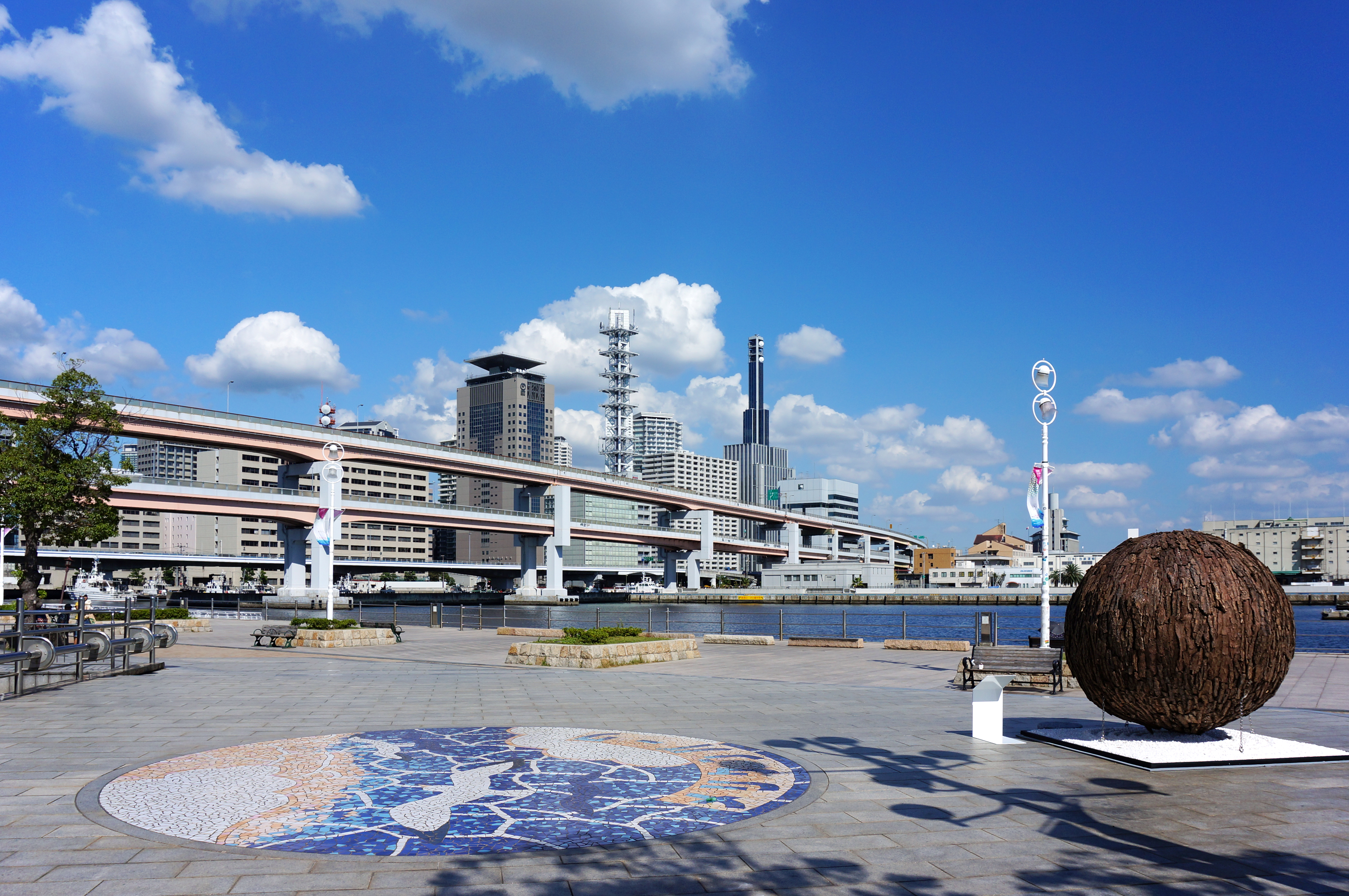 KOBE Biennale 2013 at Meriken Park in Kobe, Hyogo prefecture, Japan